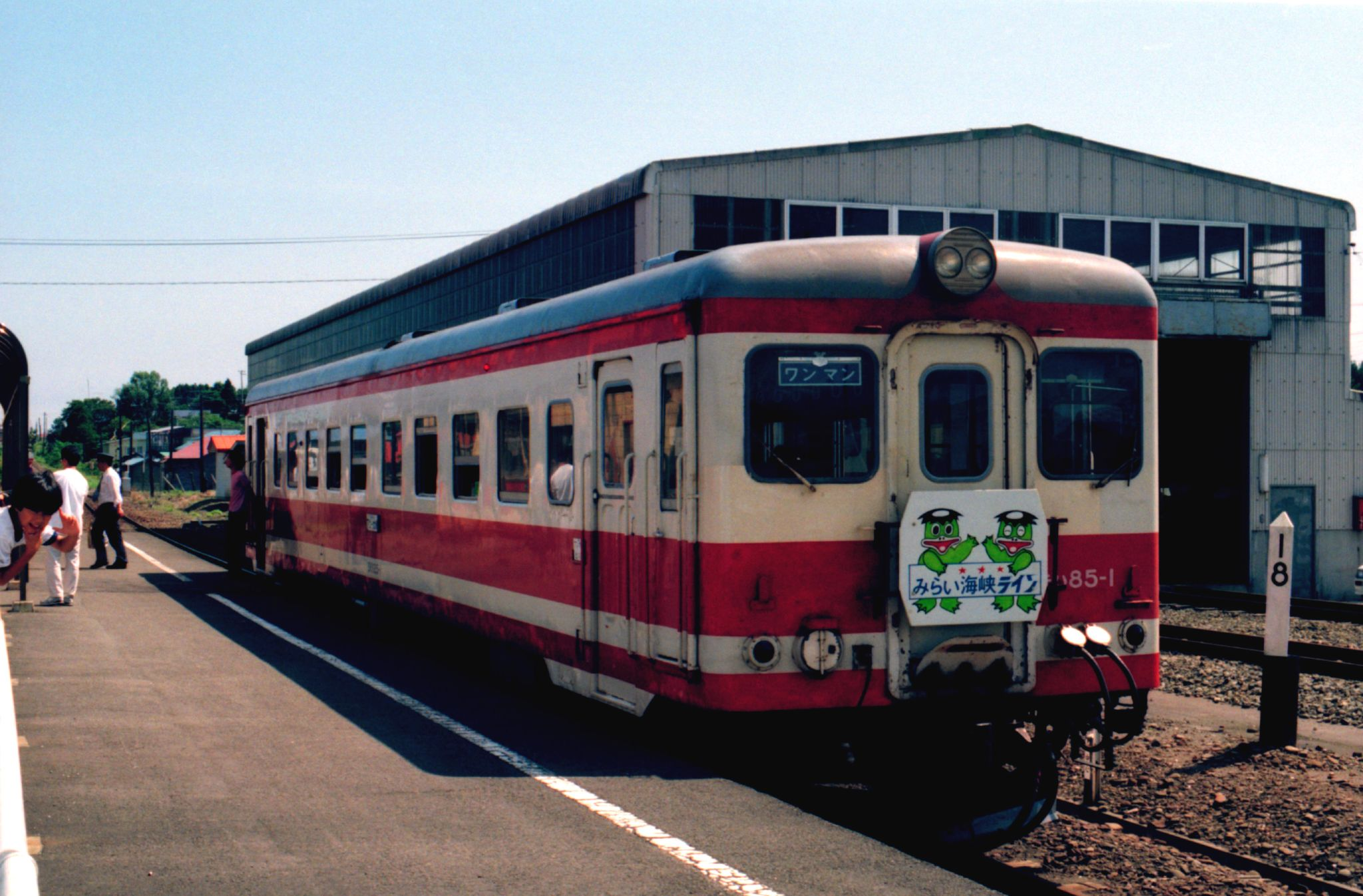 Shimokita Kotsu KiHa 85 DMU KiHa 85-1 at Ohata Station on the Shimokita Kotsu Ohata Line (now closed)